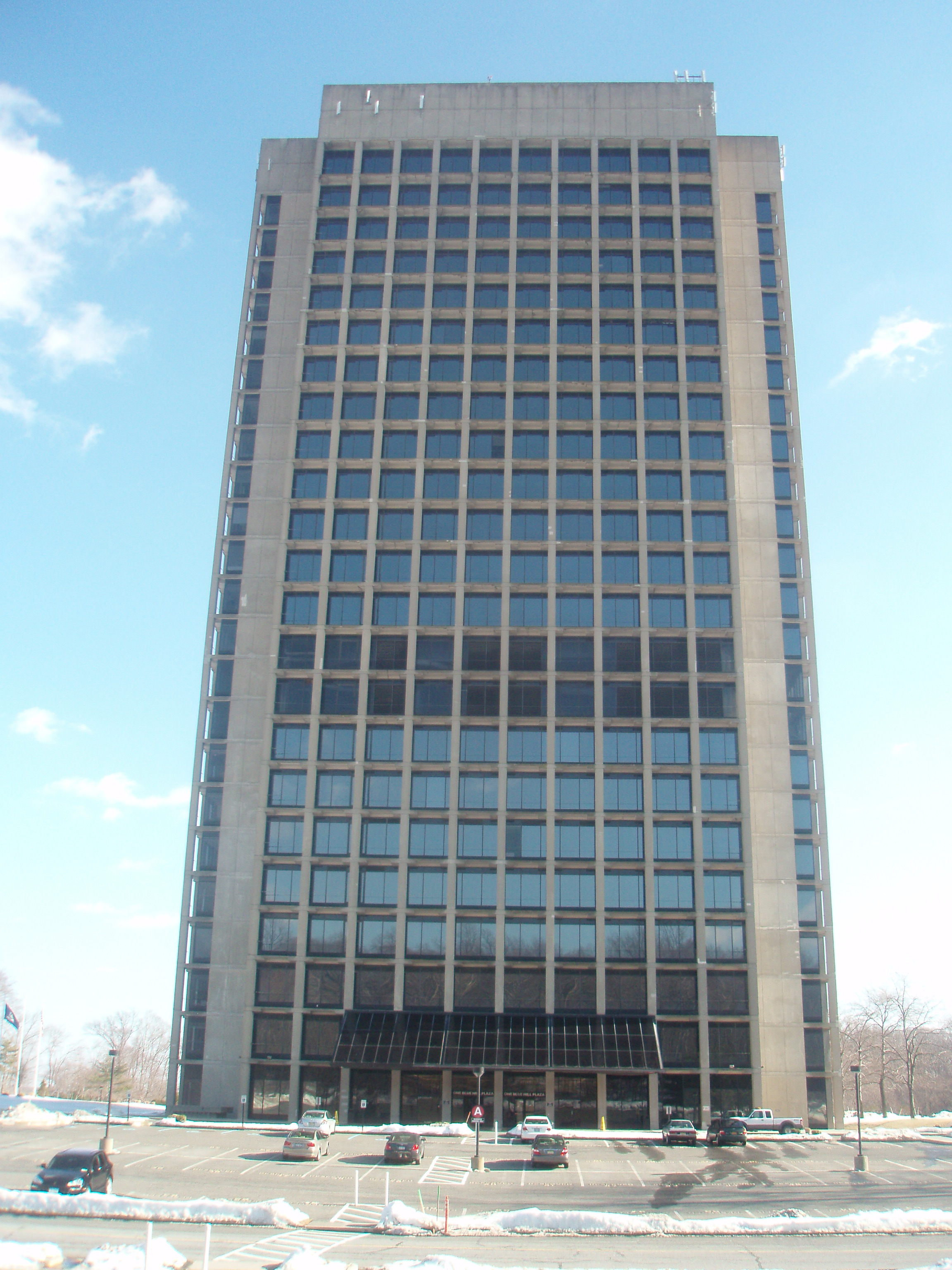 Blue Hill Plaza in Pearl River, New York